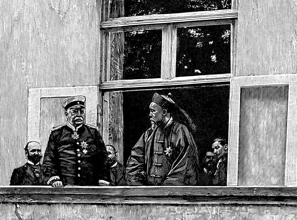 Prince Otto von Bismarck and Marquis Lee Hung Chang at Friedrichsruh (Germany) 1896